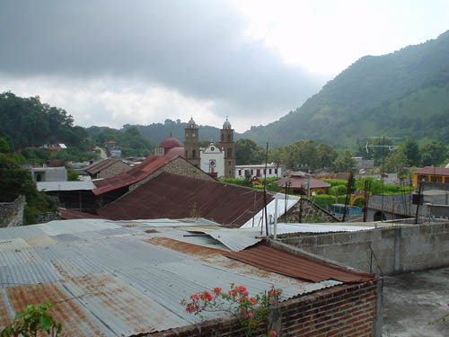 Downtown Calnali, Hidalgo, Mexico in 1998